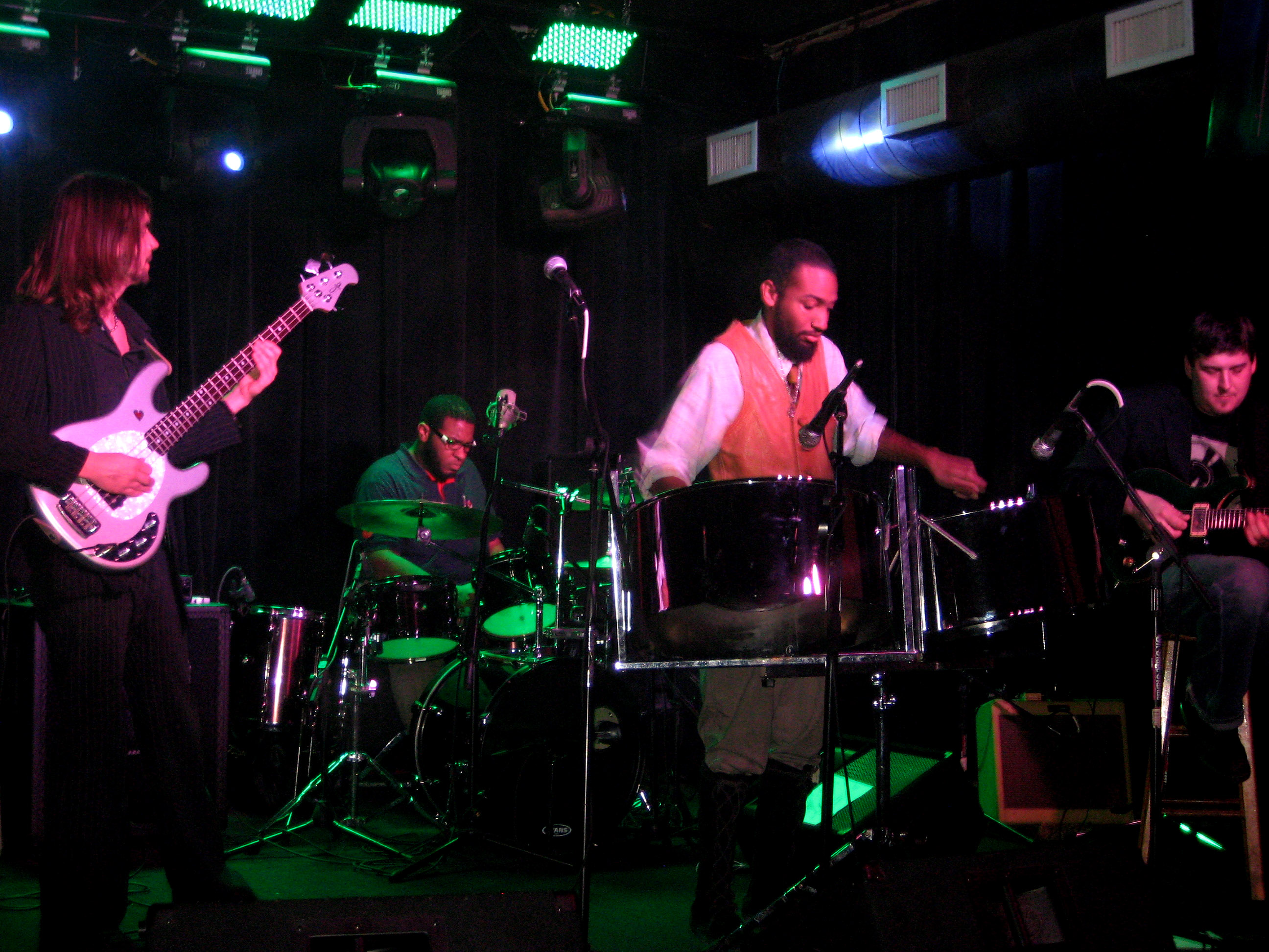 The Jonathan Scales Fourchestra (L to R: Cody Wright, Phillip Bronson, Jonathan Scales, Duane Simpson) perform at The Emerald Lounge in Asheville, NC on 4/1/2011.